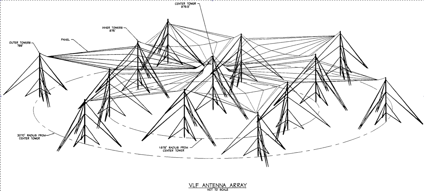 Diagram of one of the two identical antenna arrays at the U.S. Navy Cutler VLF transmitter facility at Cutler, Maine. It transmits operational orders one-way to submerged submarines worldwide at a frequency of 24 kHz with a power of 1.8 megawatts. This type of antenna is called a trideco or umbrella antenna, a form of capacitively top-loaded monopole antenna. It consists of an array of 13 vertical steel masts attached at the top to a system of horizontal cables like an 'umbrella". The cables are divided into 6 "panels" which radiate out from the central tower in a pattern resembling a snowflake. The central mast is 979 ft (298 meters) tall, and the entire array is 6140 ft (1.871 km or 1.16 miles) in diameter. The vertical masts actually radiate the VLF radio waves, while the top cables form a large capacitor with the ground, which serves to increase the efficiency of the antenna. Under each mast there is also a system of cables suspended a few feet above the ground radiating from the mast base, called a Counterpoise (not shown) which functions as the other plate of the capacitor.